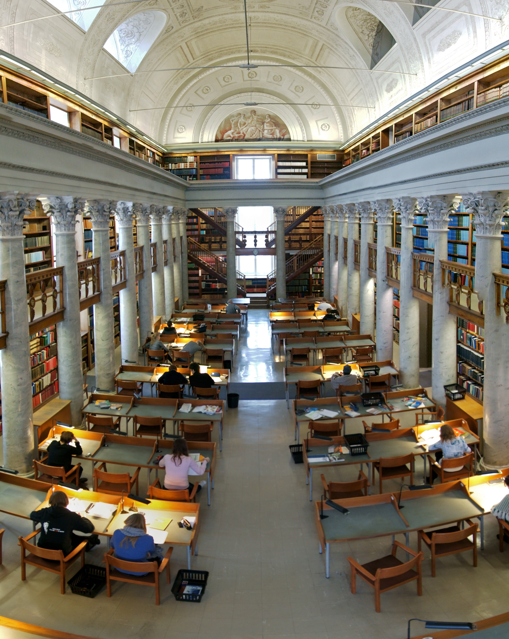 National Library of Finland.